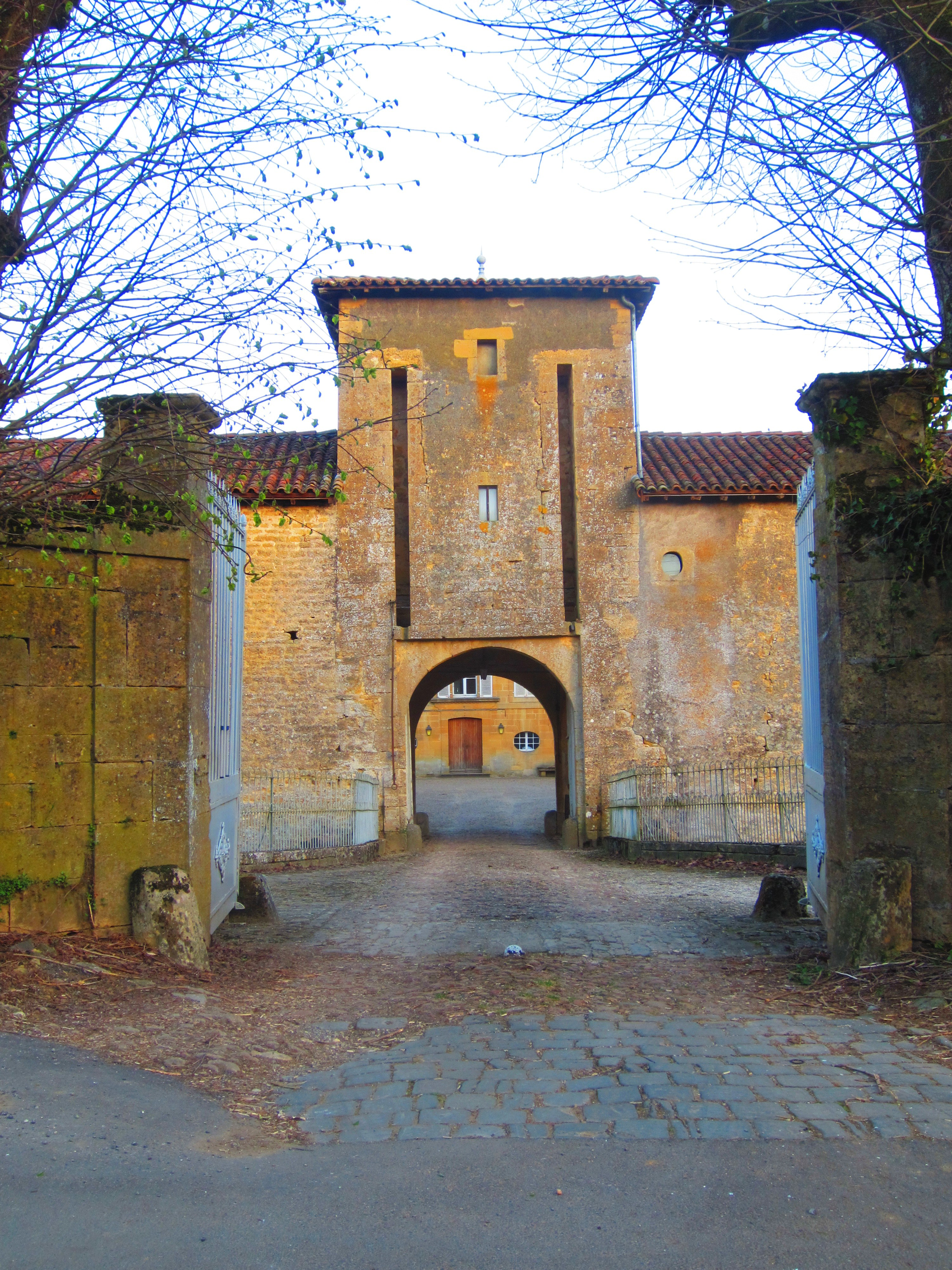 Colmey enter castle